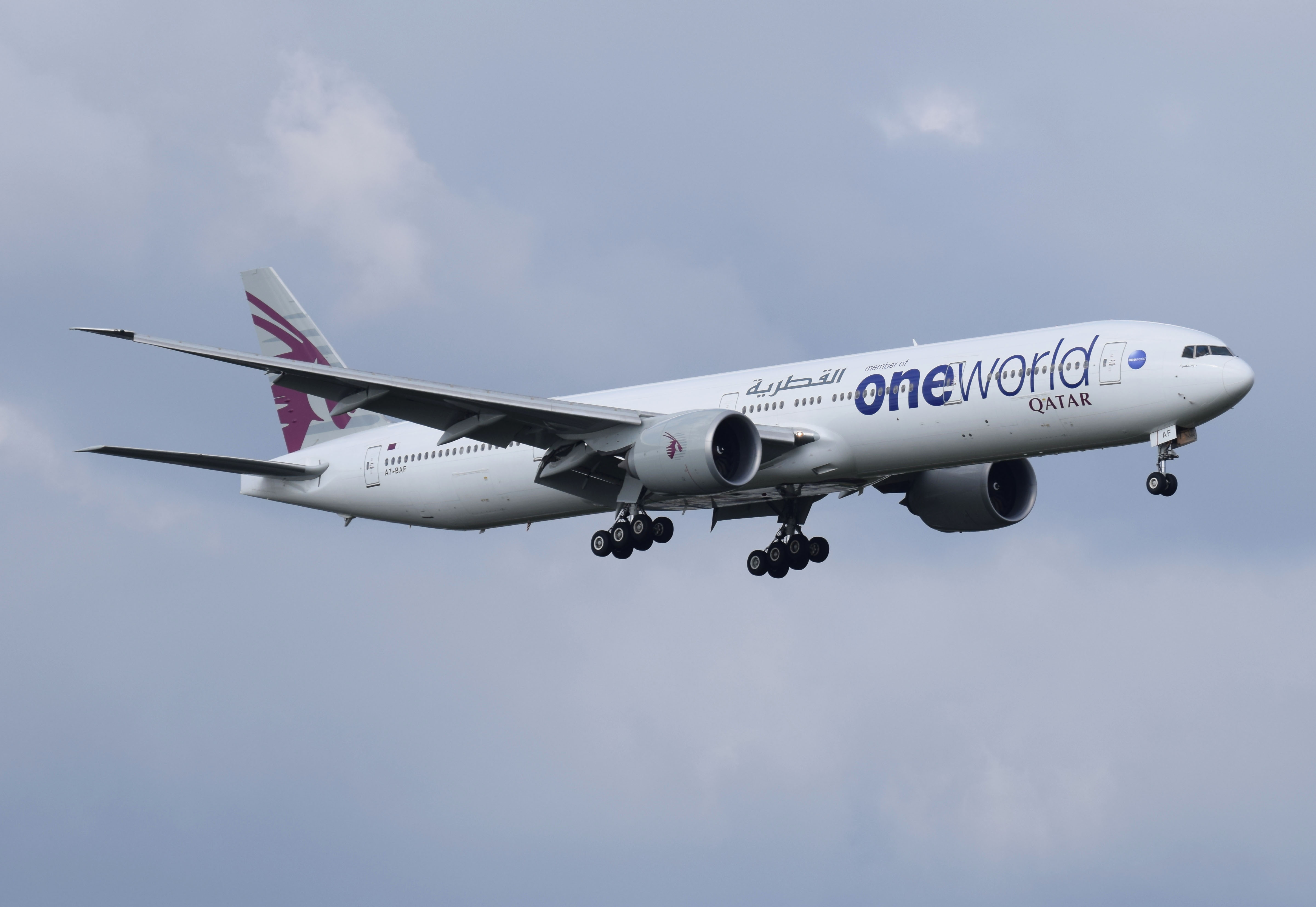 Qatar Airways Boeing 777-300ER (A7-BAF) arrives at London Heathrow Airport, England.